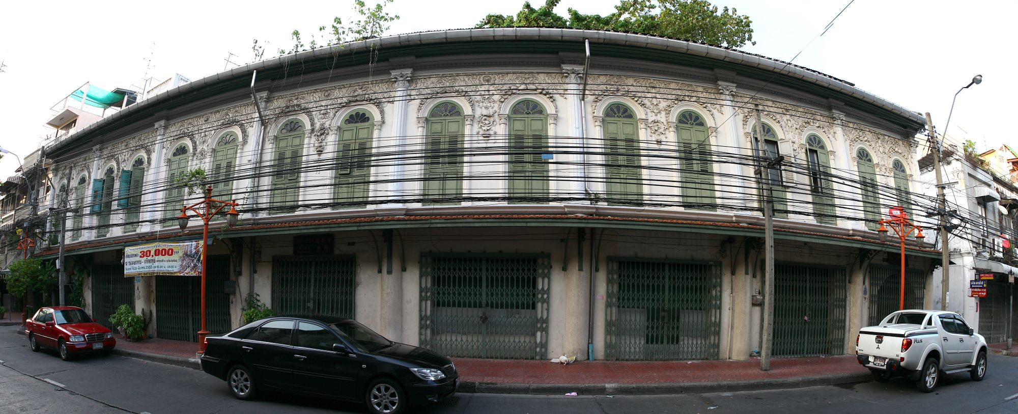 "fruit building" in chinatown